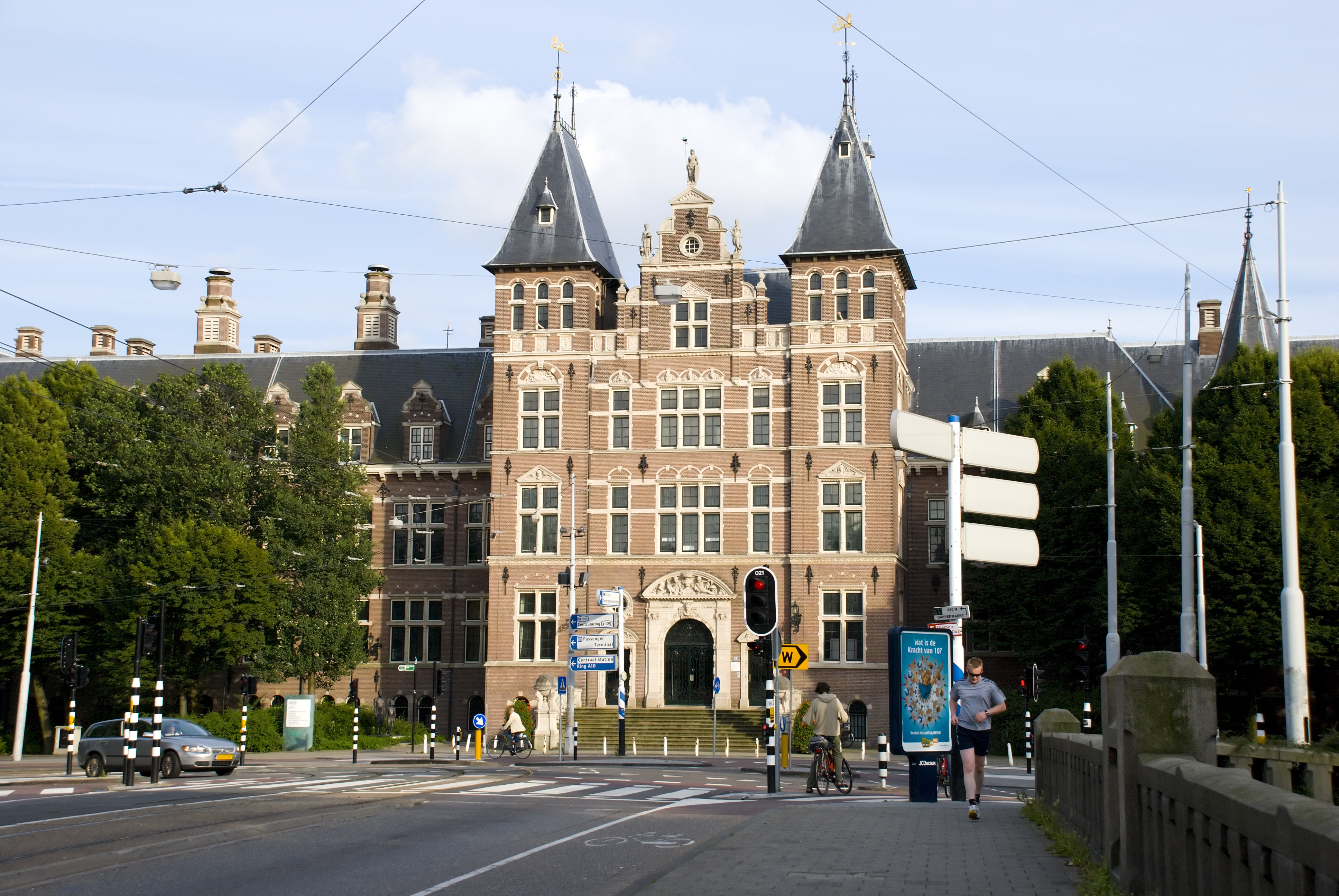 Tropenmuseum, Amsterdam, The Netherlands. Photo taken July 10, 2007.